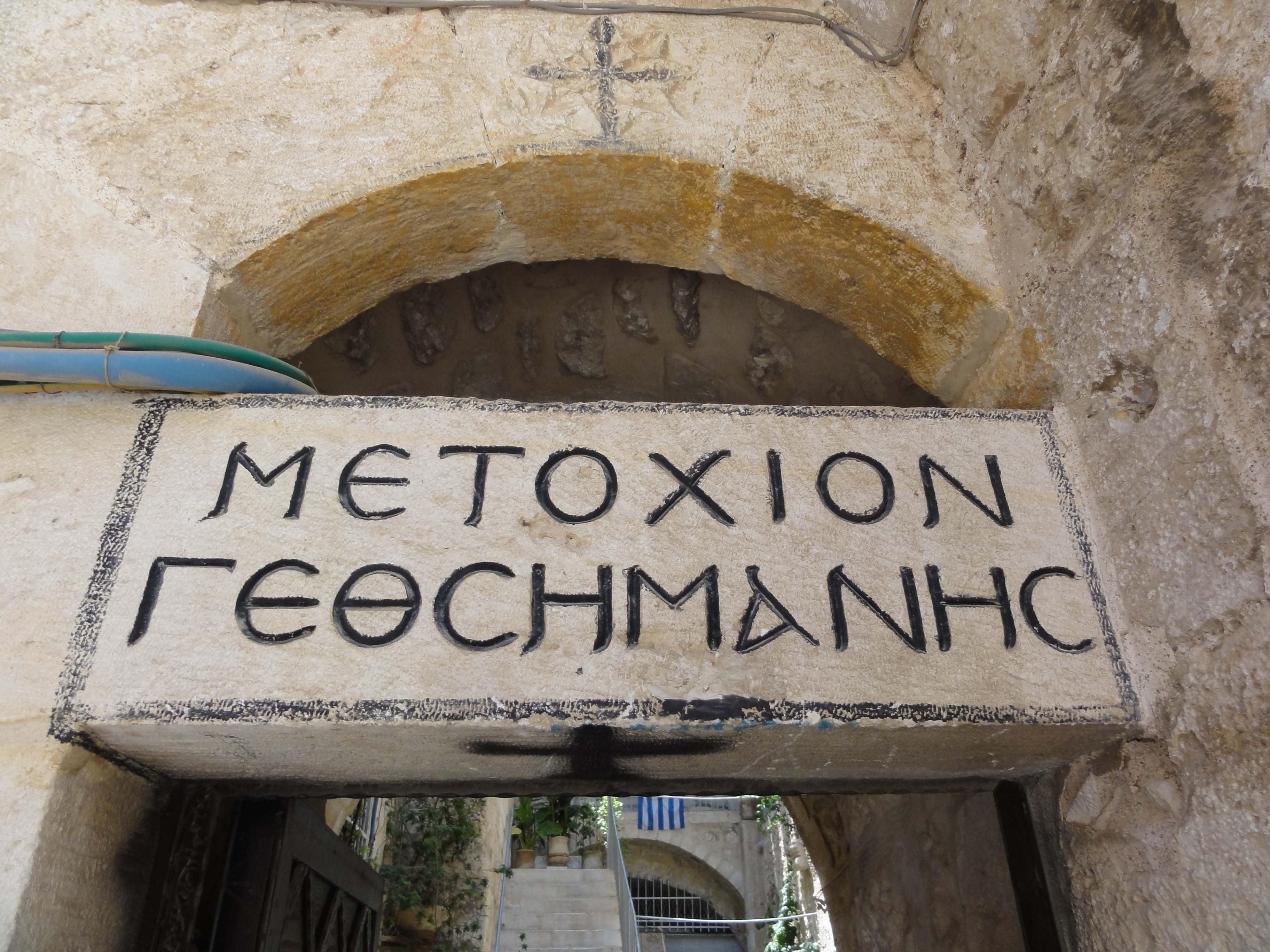 Christian quarter: A plaque "Μετοχιον Γεθσημανης" in all caps with lunate sigma just opposite to the main entrance to the Church of the Holy Sepulchre in Jerusalem Old City, at the entrance to the Greek Orthodox monastery named "METOXION - Gethsemane" on the parvis of the Holy Sepulchre church.